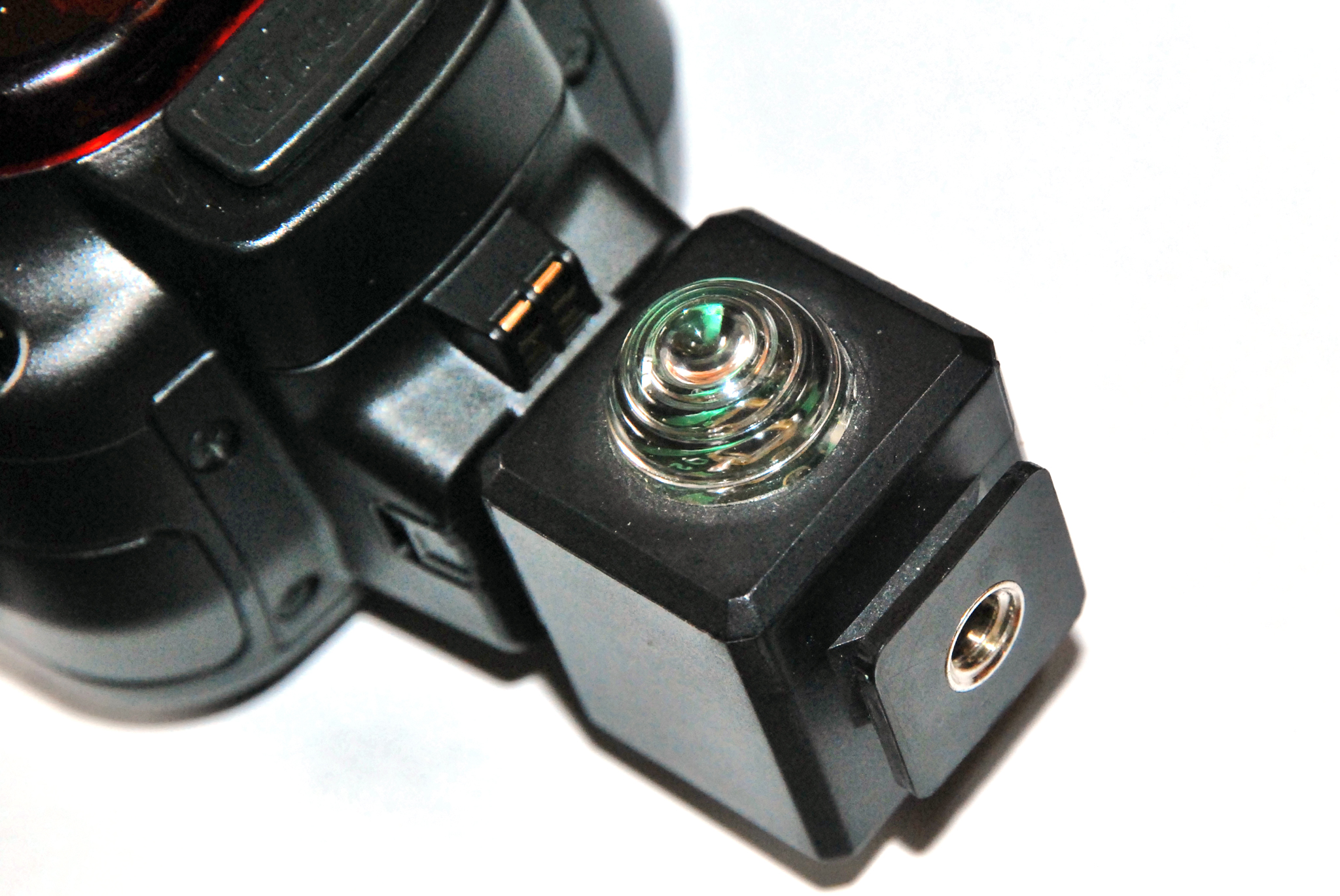 Remote flash trigger with tripod mount. The device is based on a light sensor.